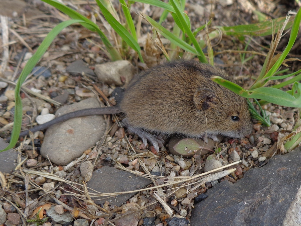 Sicista betulina. Found in Riga town, Latvia